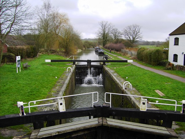 Kennet and Avon Canal, Wootton Rivers looking north-east The lock gates don't appear to be particularly watertight. The lock-keeper's cottage is the white building to the right of the image.